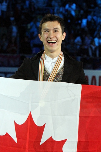 Patrick Chan at the 2011 ISU World Figure Skating Championships in Moscow